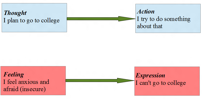 Relations therapy: direct intrapersonal relations during therapy. Based on information from Tapu CS, (2011) The Complete Guide to Relational Therapy.